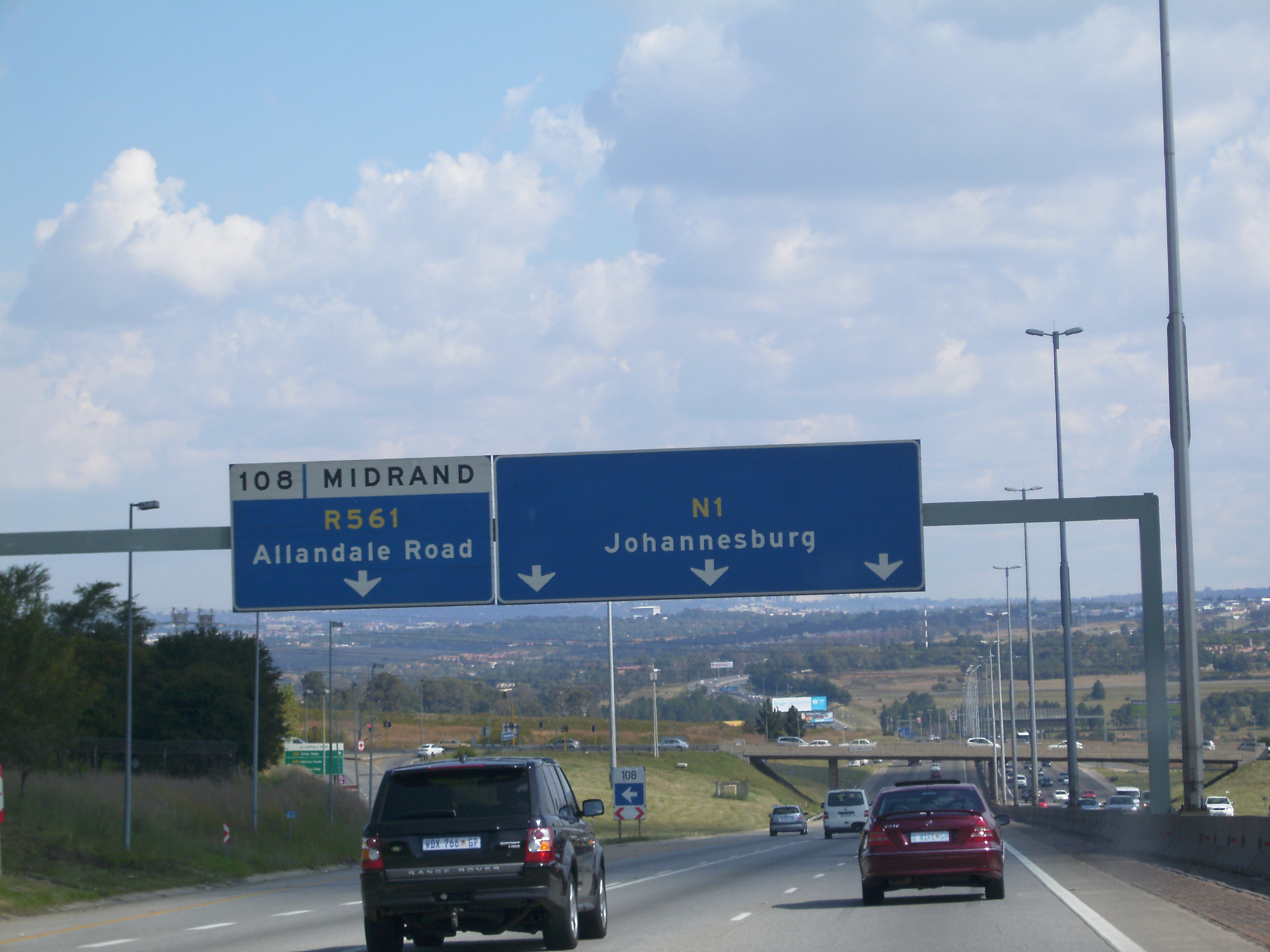 N1 met jozi in agtergrond